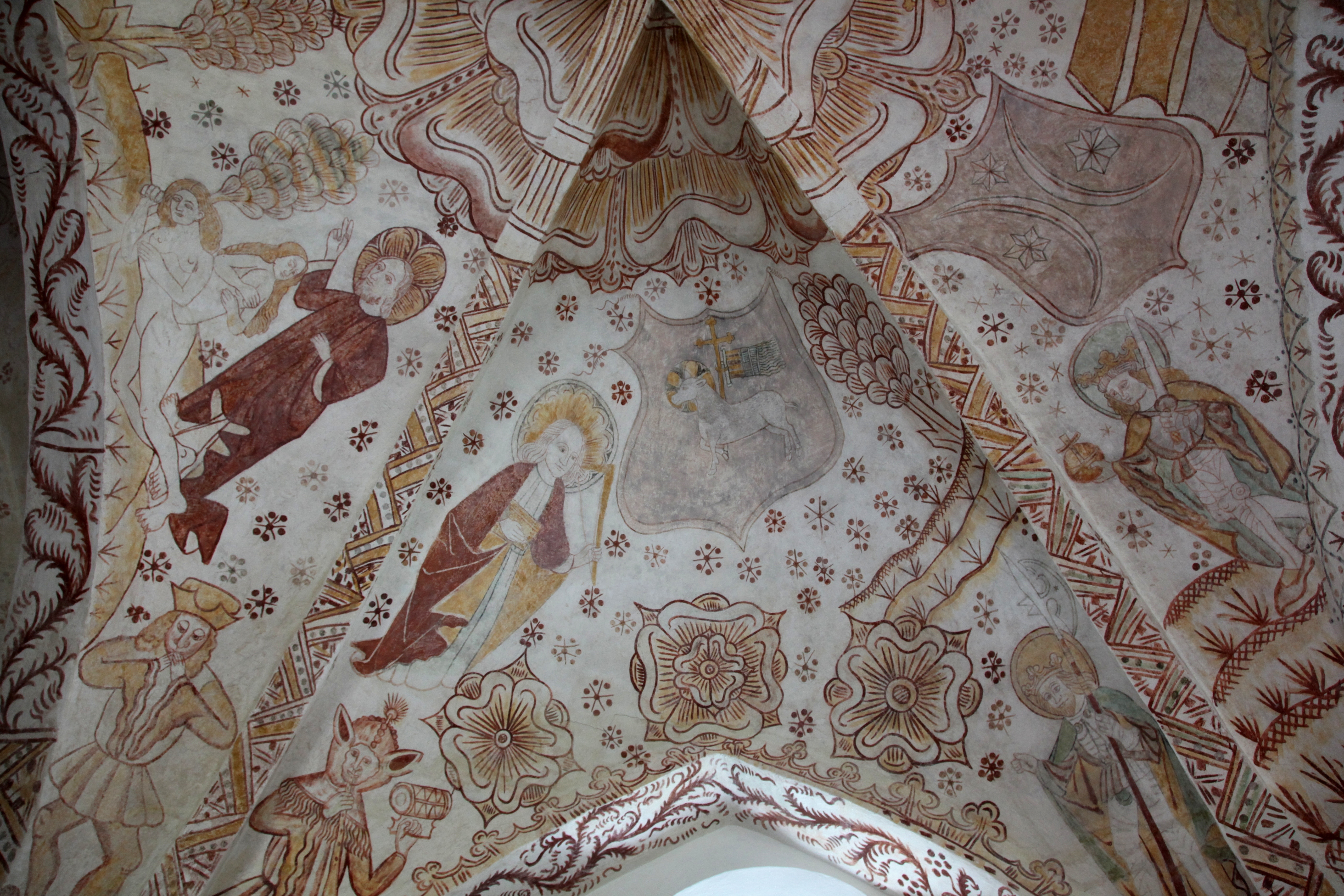 Fresco in Skivholme Kirke, Denmark